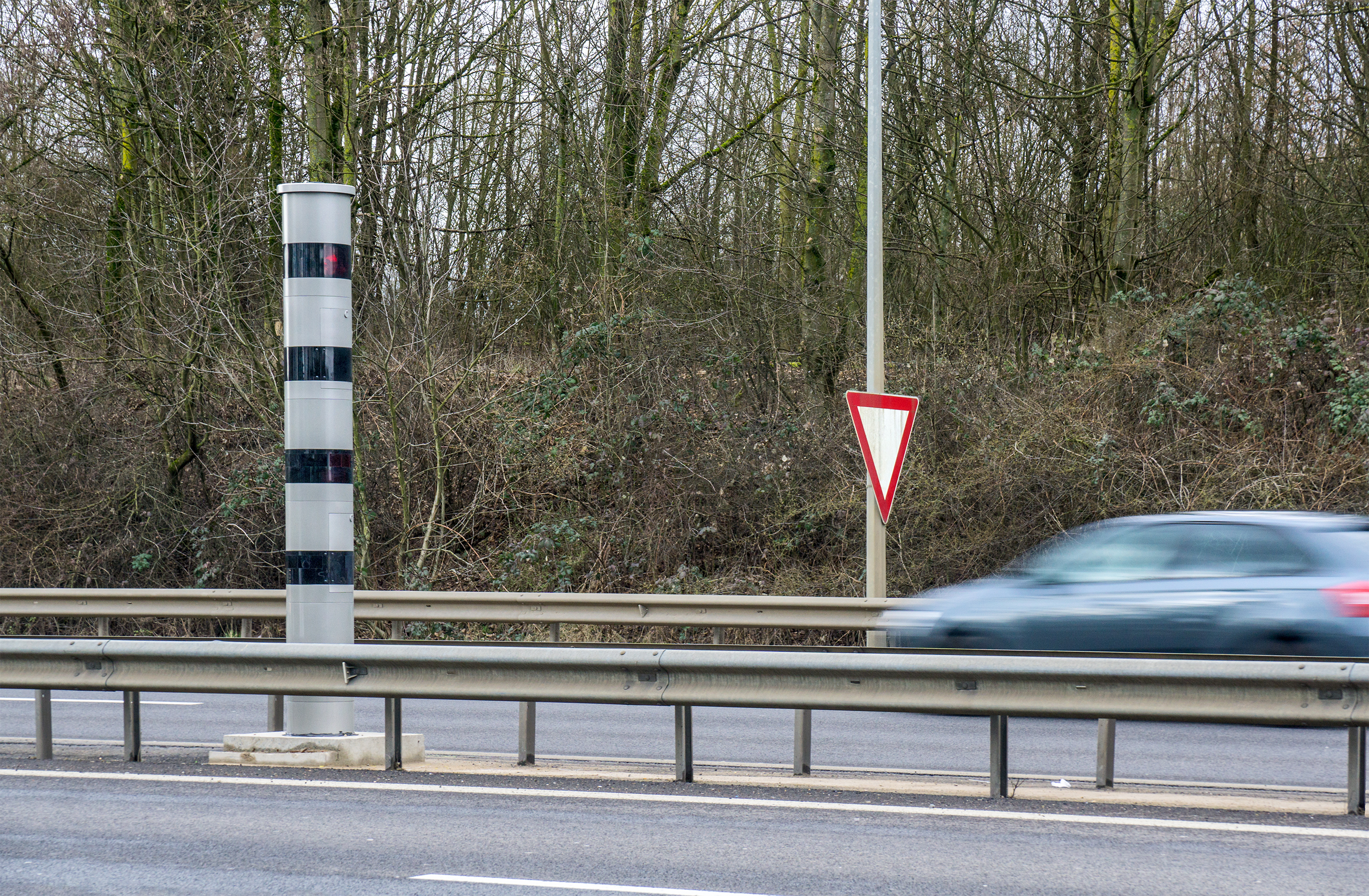 Traffic enforcement camera of the Vitronic "Poliscan speed" type in Luxembourg-Hollerich at the beginning of the A4